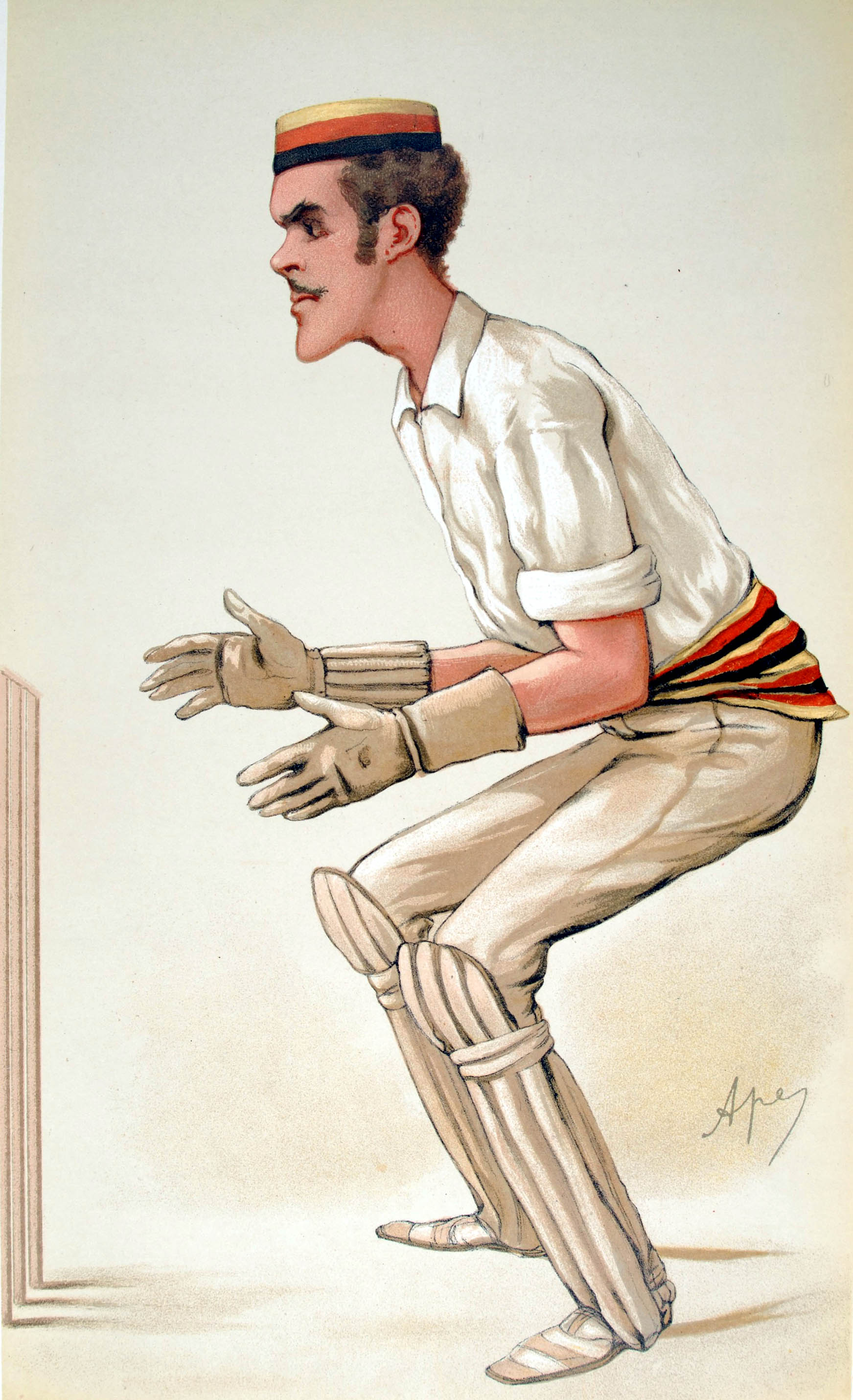 Caricature of Alfred Lyttelton playing cricket.